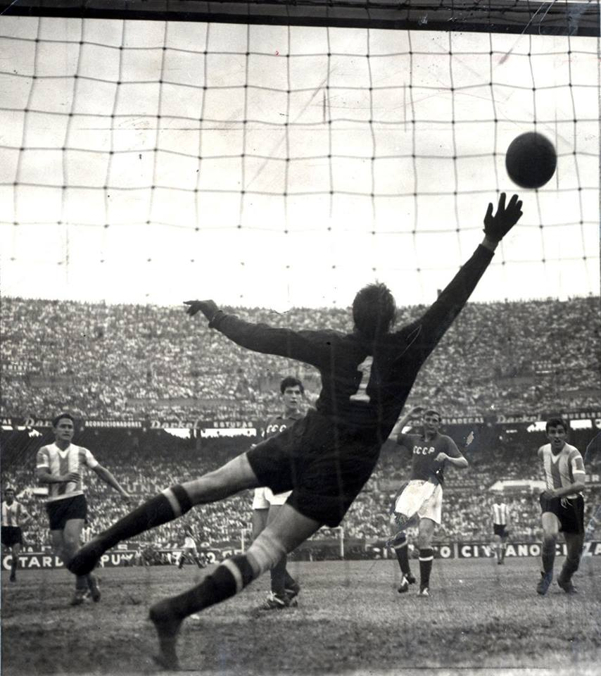 Lev Yashin saving a shot by José Sanfilippo during the Argentina v URSS match at River Plate stadium of Buenos Aires.